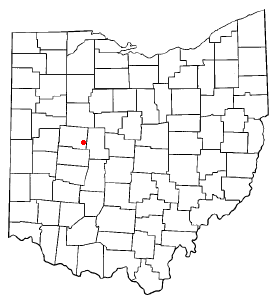 Adapted from Wikipedia's OH county maps and "dot maps" by Catbar. Authored by SwissCelt.